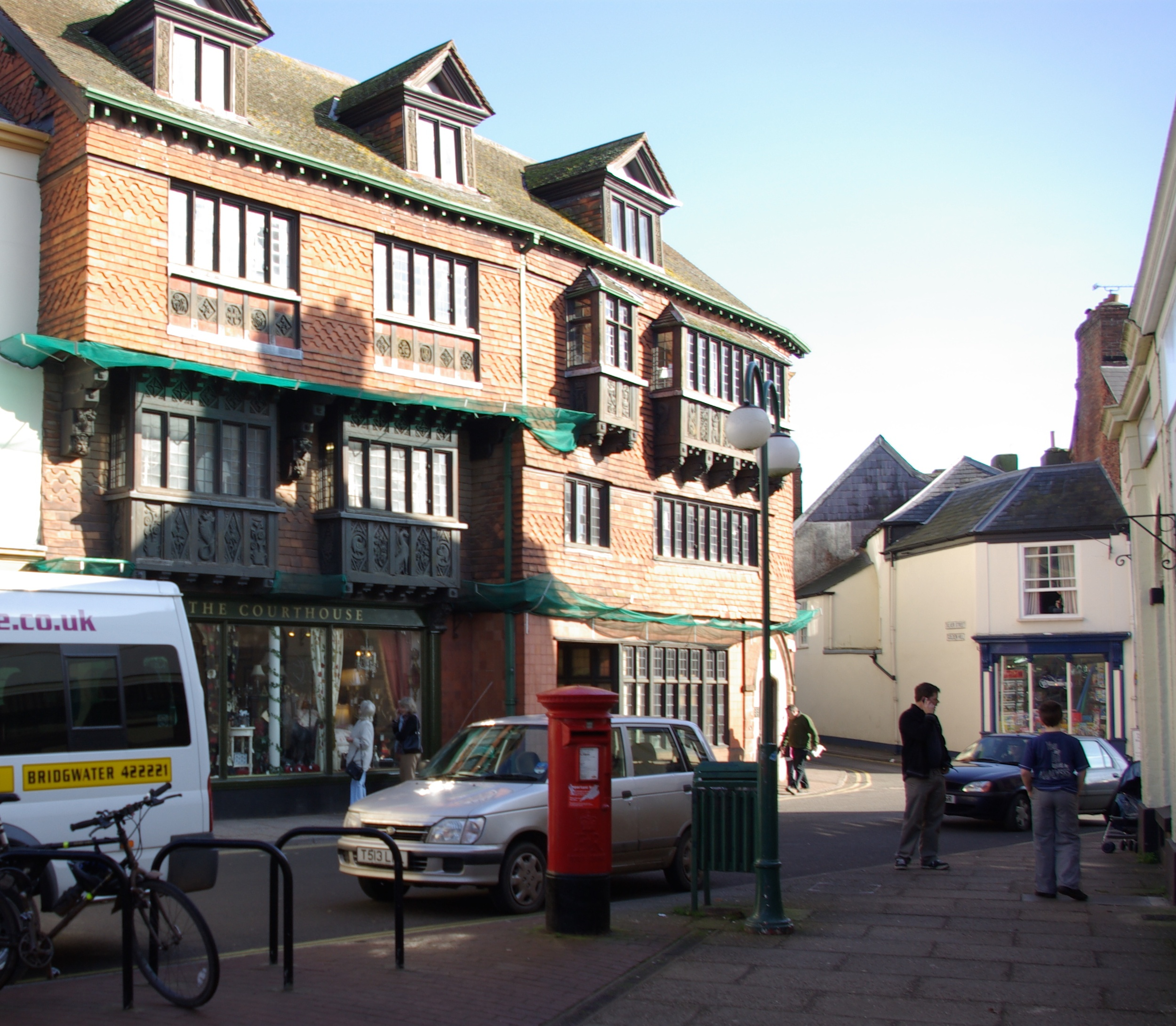 Old houses in Wiveliscombe, Somerset, UK